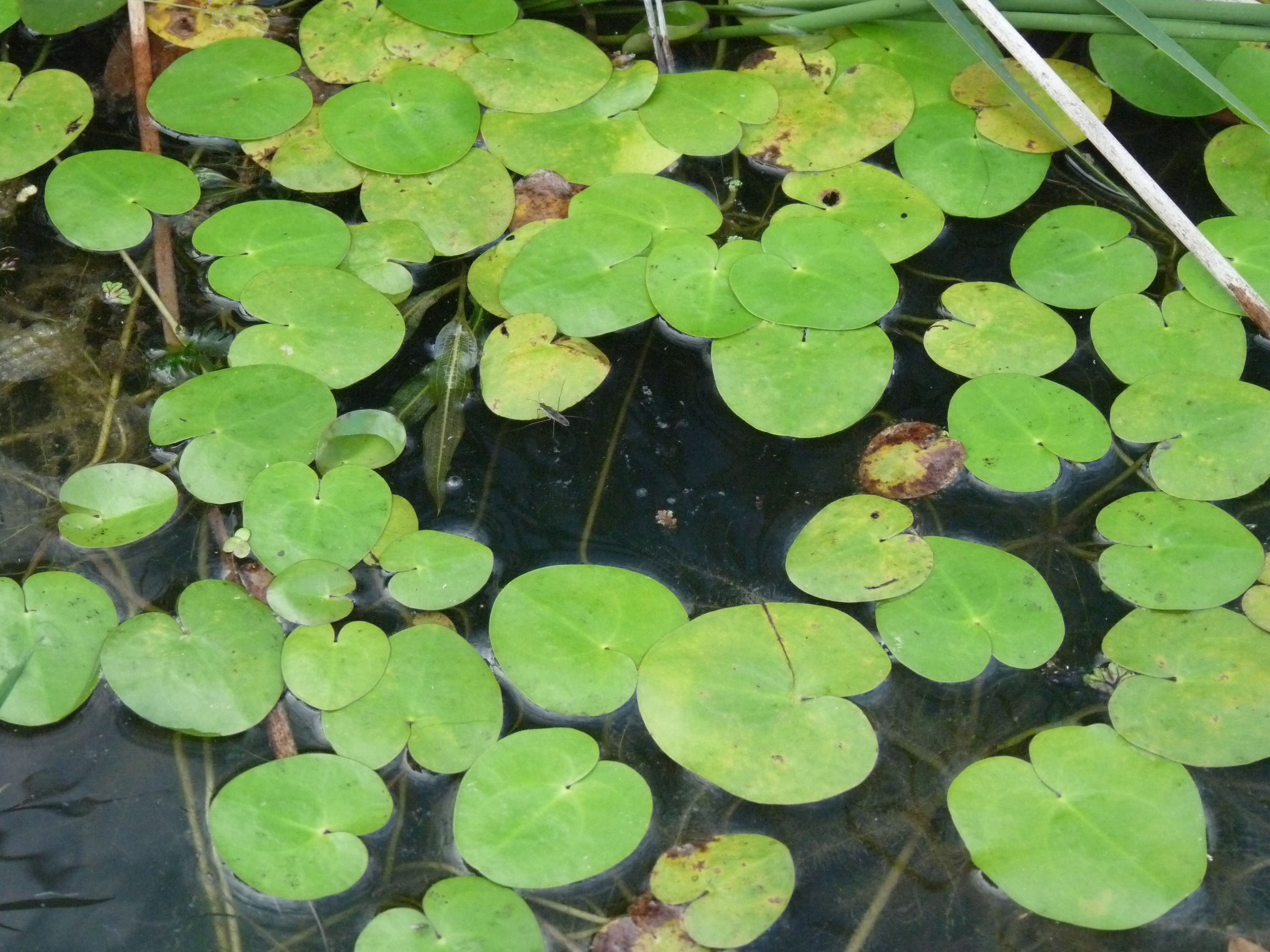 Hydrocharis dubia leaves